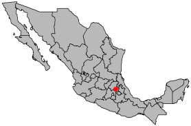 Location map of the city of Pachuca de Soto, state of Hidalgo, México.